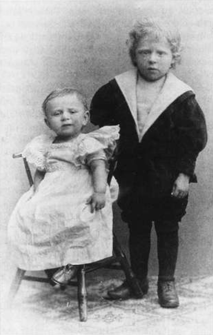 Gregor Strasser in 1897 with his younger brother Paul (later Fr. Bernhard OSB)